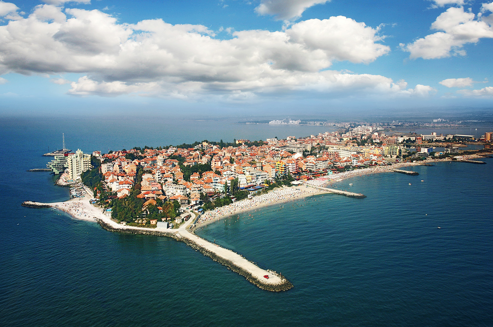 The main part of the town and the several small beaches in foreground. The port of Pomorie in background, to the left. Shot from a small plane.